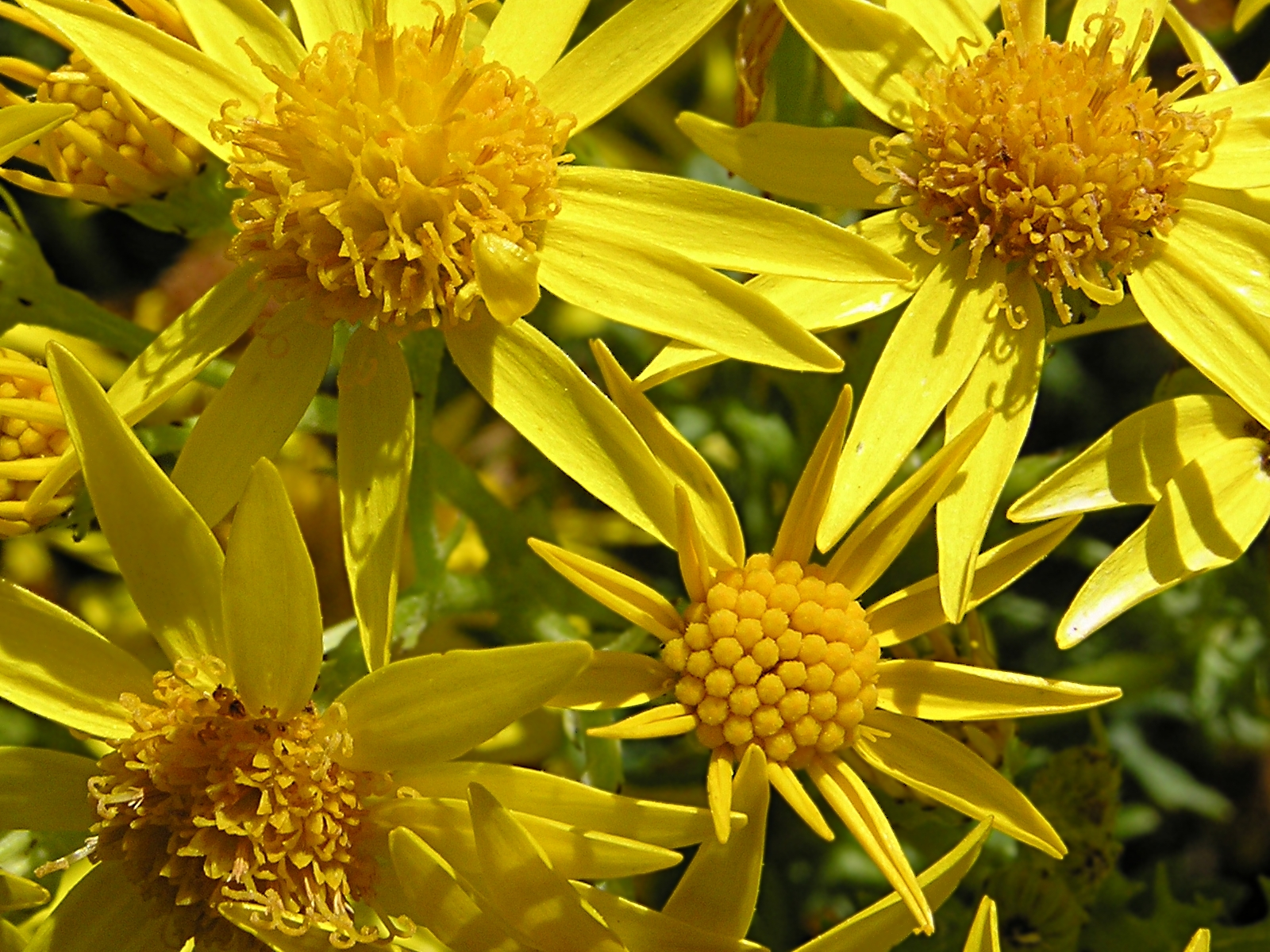 Ragwort flowers, Wellington, New Zealand